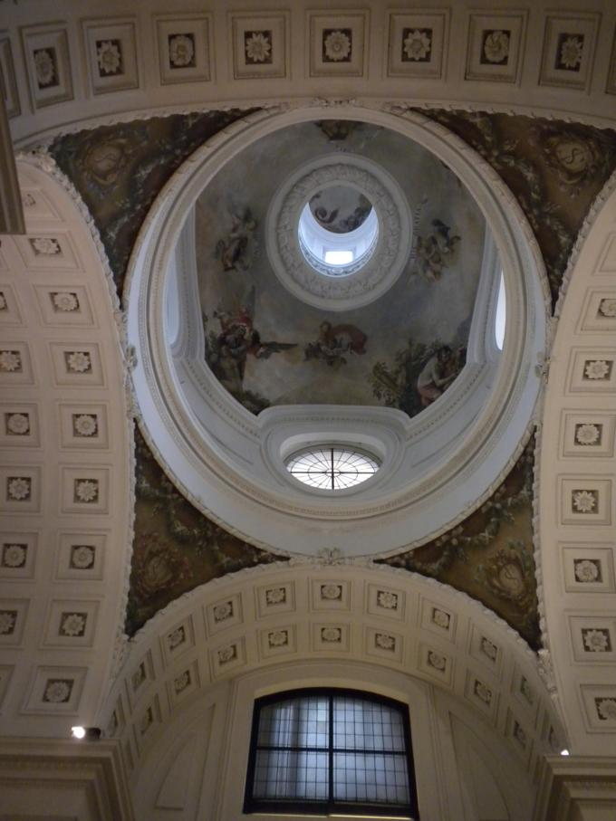 Interior of Real Oratorio del Caballero de Gracia in Madrid (Spain).